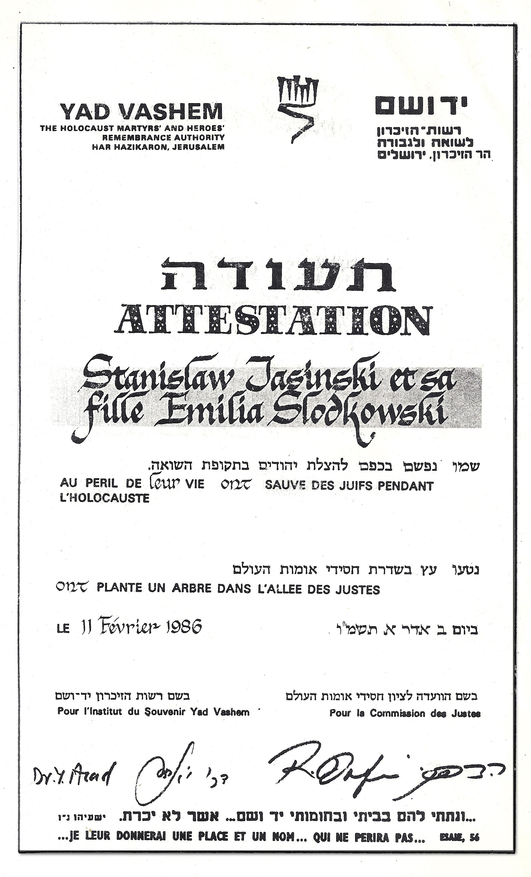 Stanisław Jasiński and Emilia Słodkowska, Polish Righteous among the Nations Attestation